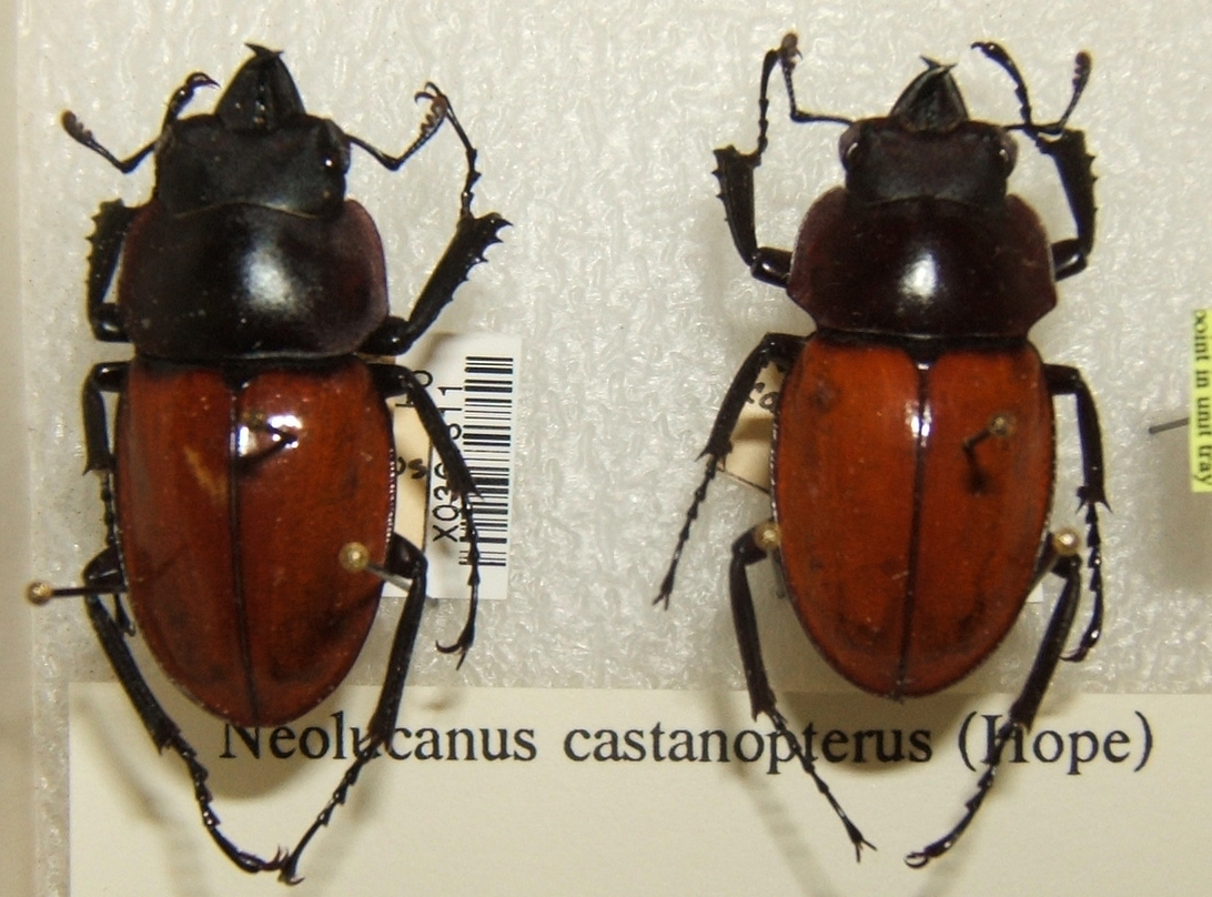 Neolucanus castanopterus adult taken by Shawn Hanrahan at the Texas A&M University Insect Collection in College Station, Texas.